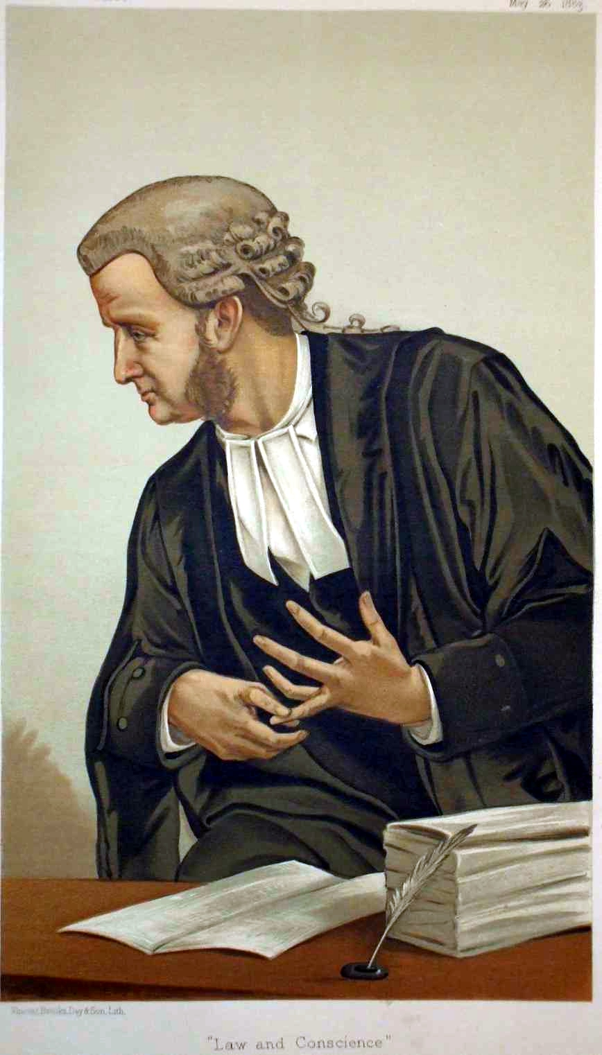 Caricature of MR Mr RE Webster QC. Caption read "Law and conscience".